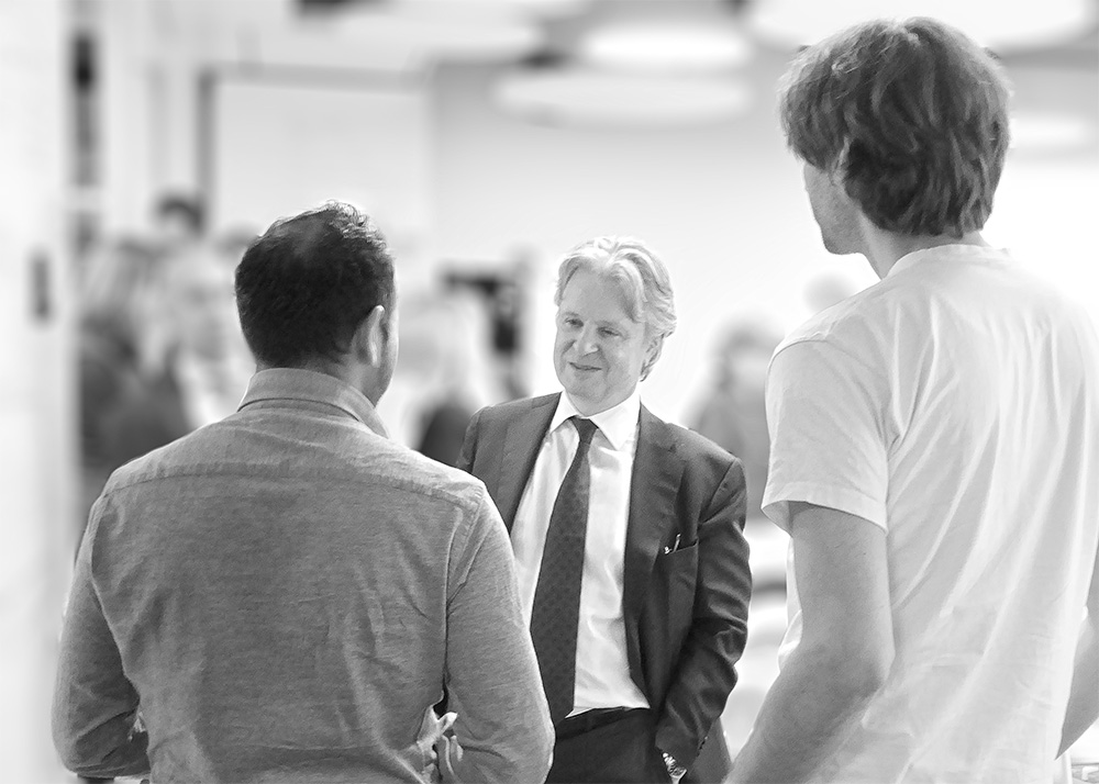 Casper von Koskull talking to B2B Pay co-founders Neil Ambikar and Kasper Souren, at Nordea's Helsinki HQ during the first Nordea accelerator, powered by Nestholma